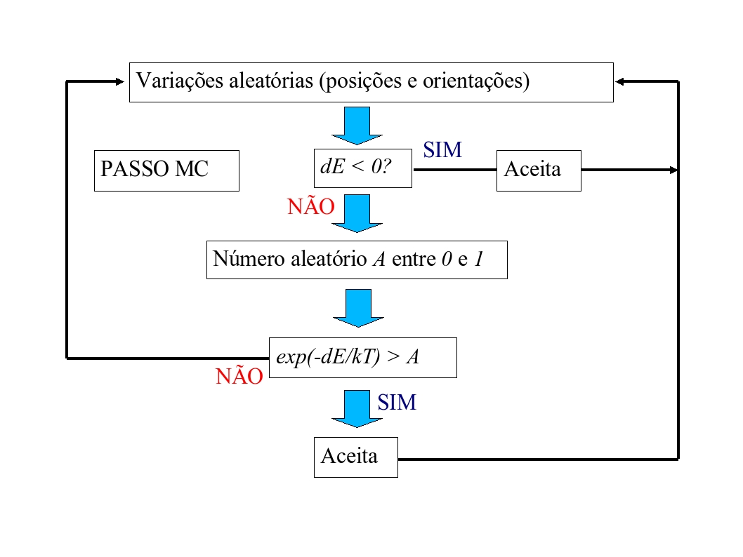 Fluxogram of the Metropolis algorithm, in Portuguese. Author: Leonardo Castro